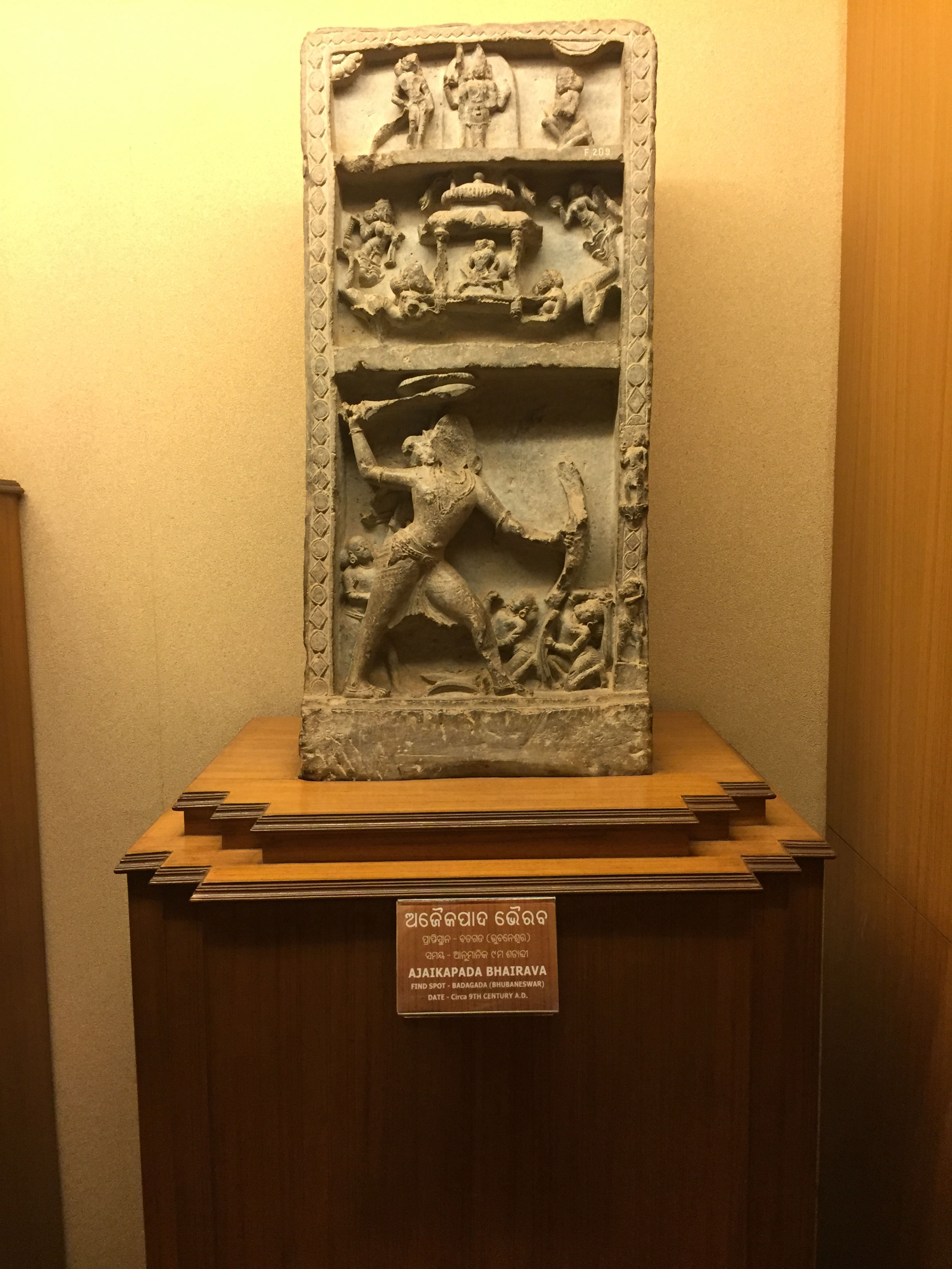 Rock carved or metal carved sculptures in traditional Kalingan or Odia style.